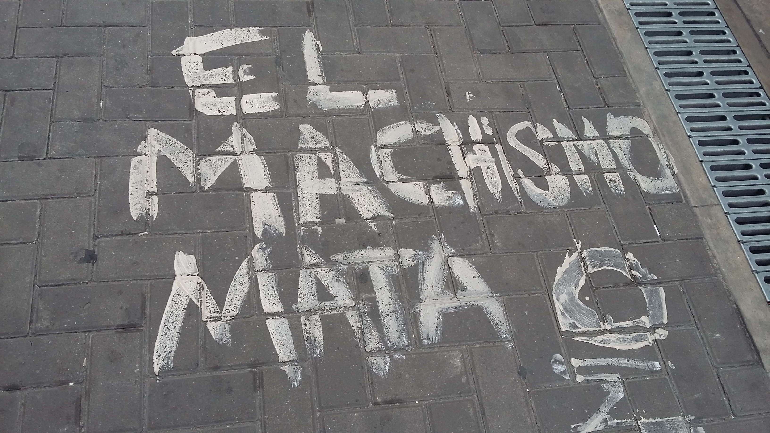 A man writing a grafitti "Machismo kills".